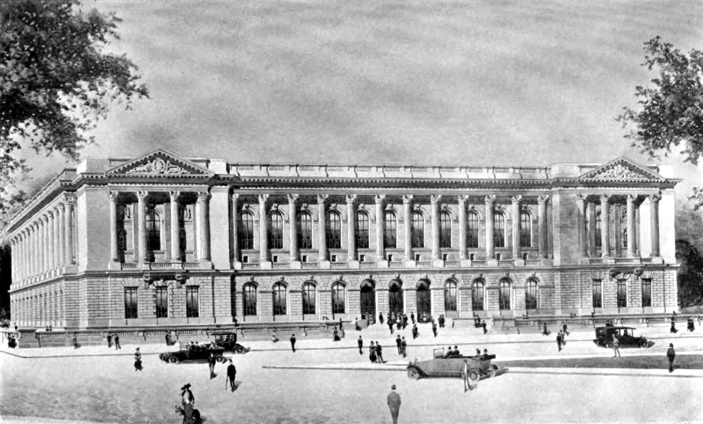 Presentation drawing (1918) for the Parkway Central Library of the Free Library of Philadelphia.